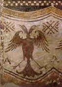 Double-headed eagle, begining of the XIV century (1307—1309), fresco from Bogorodica Ljeviška church in Prizren, Serbia